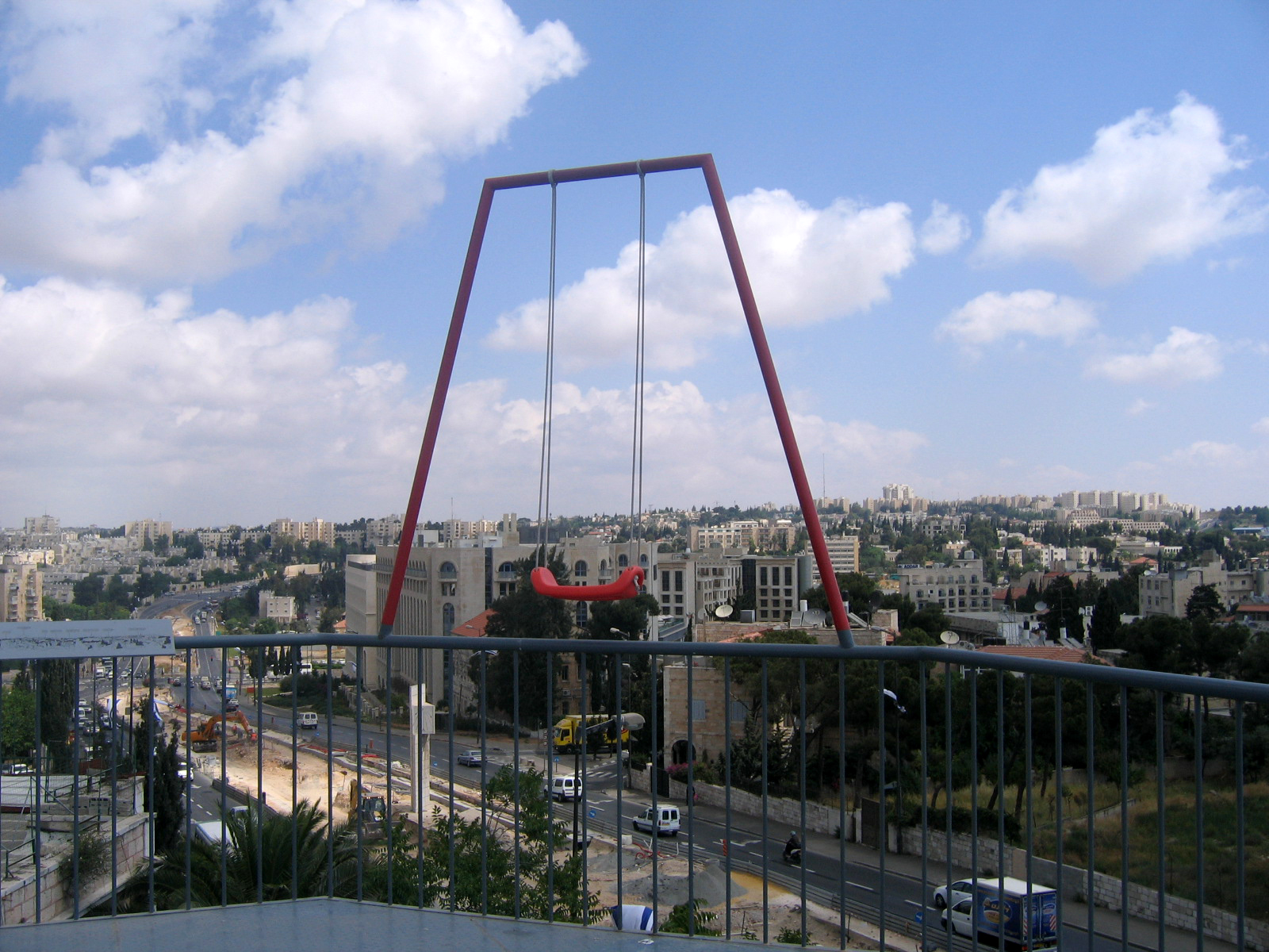 Jerusalem - Museum on the Seam, 4 Heil HaHandasa Street